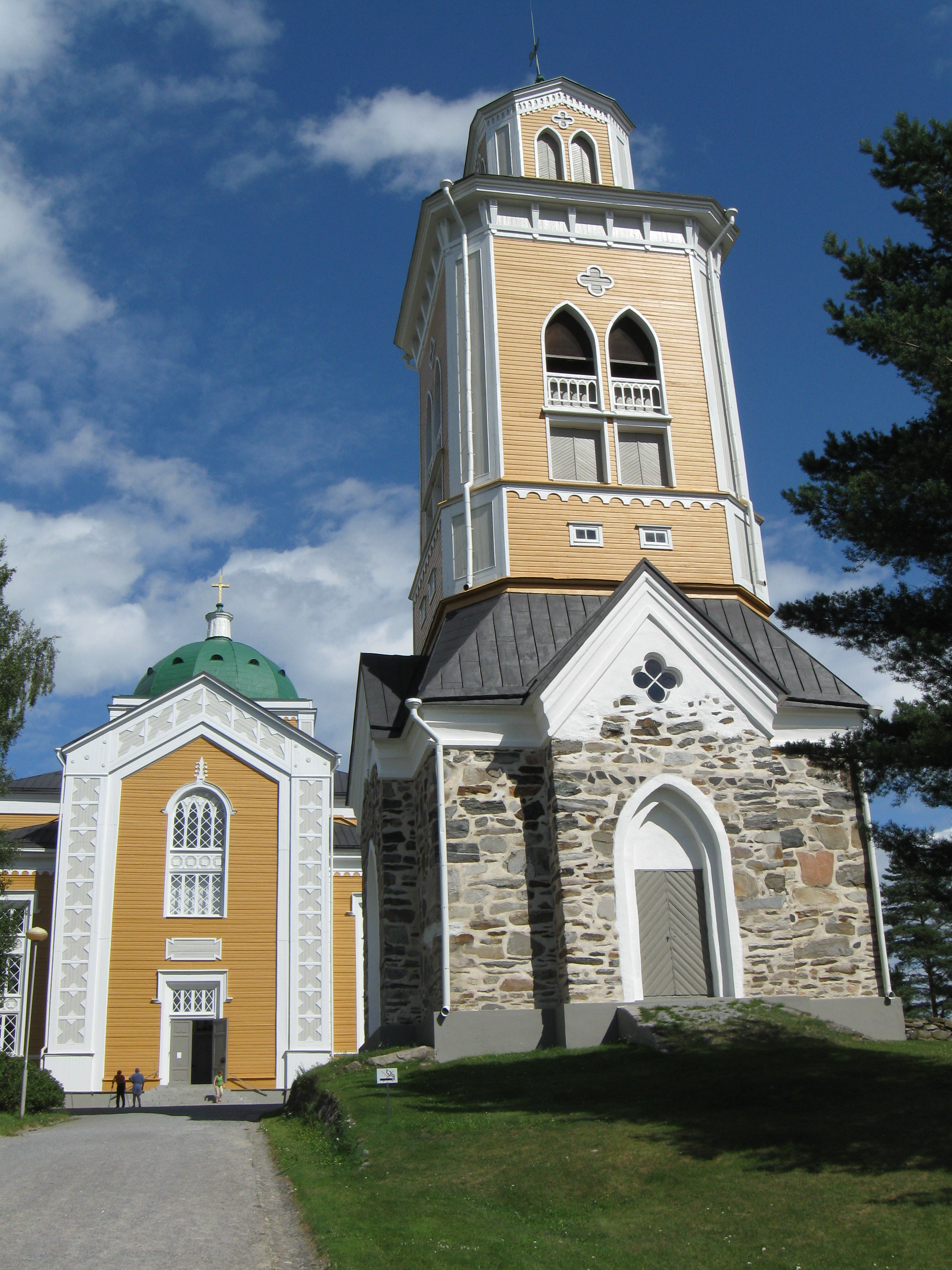 The belltower of the church of Kerimäki, Finland.